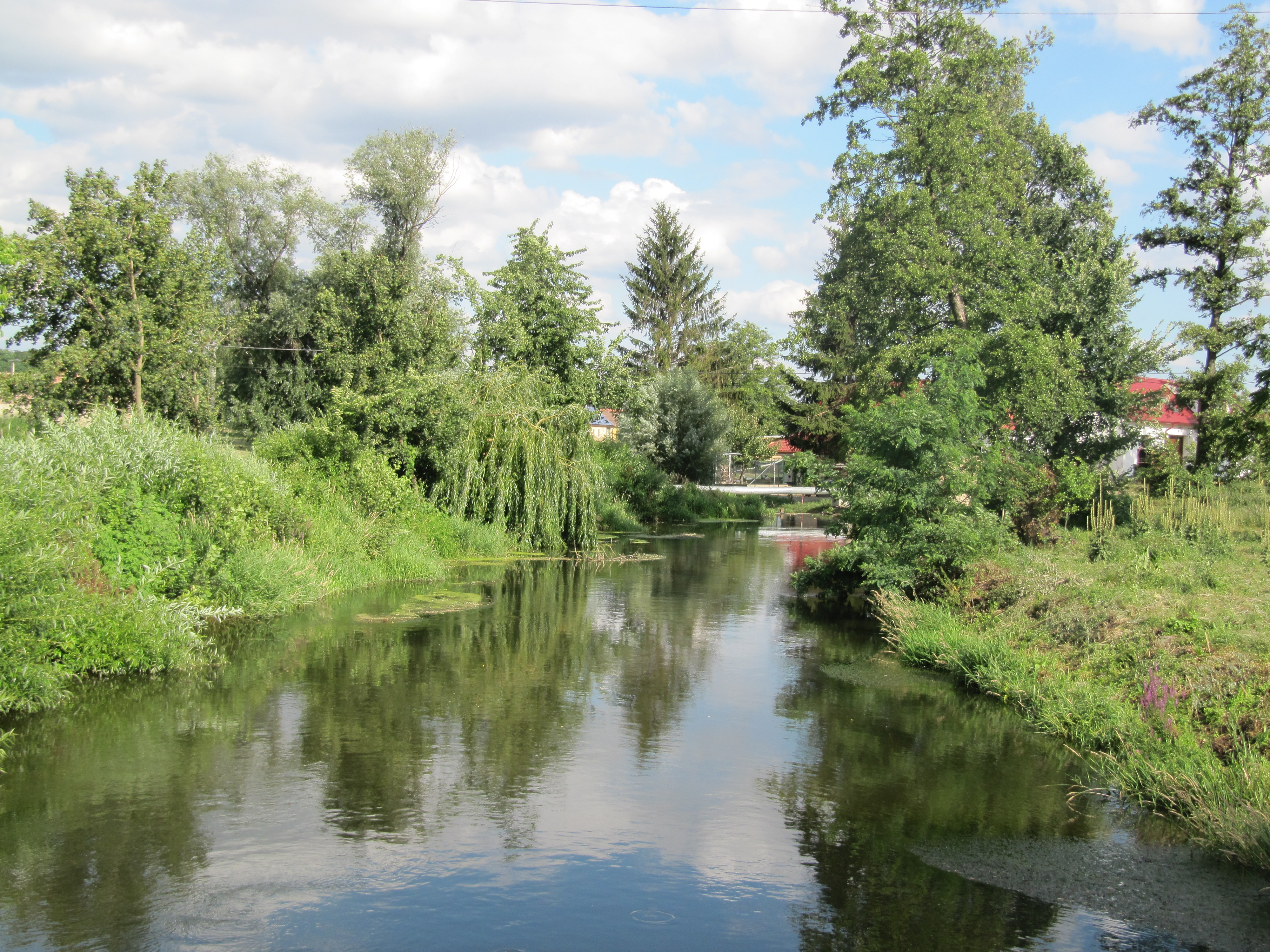 Slup in Znojmo District, Czech Republic, part Oleksovičky. Thayamühlbach channel.